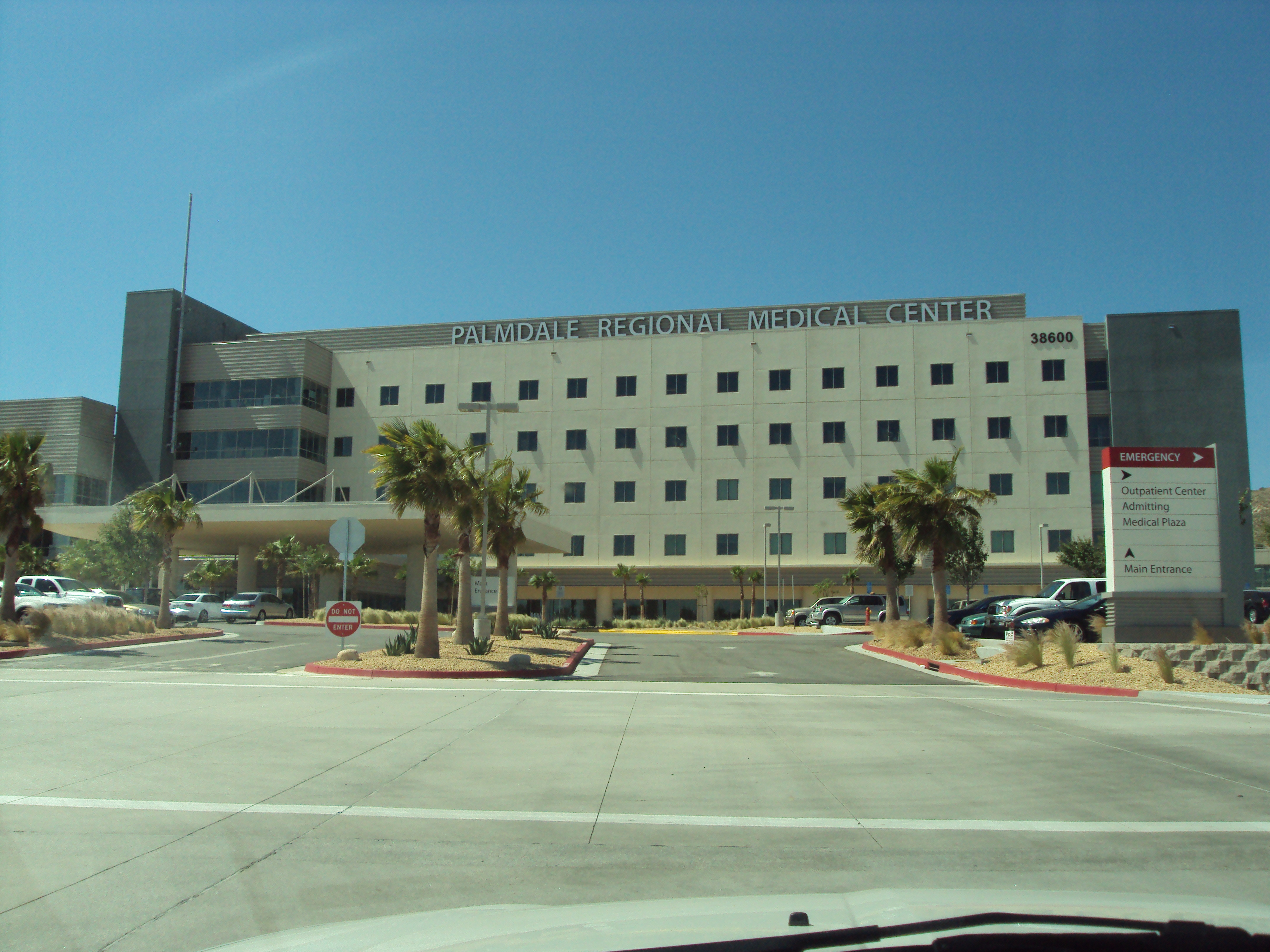 Closeup of Palmdale Regional Medical Center main entrance plaza for use in the article about the same.